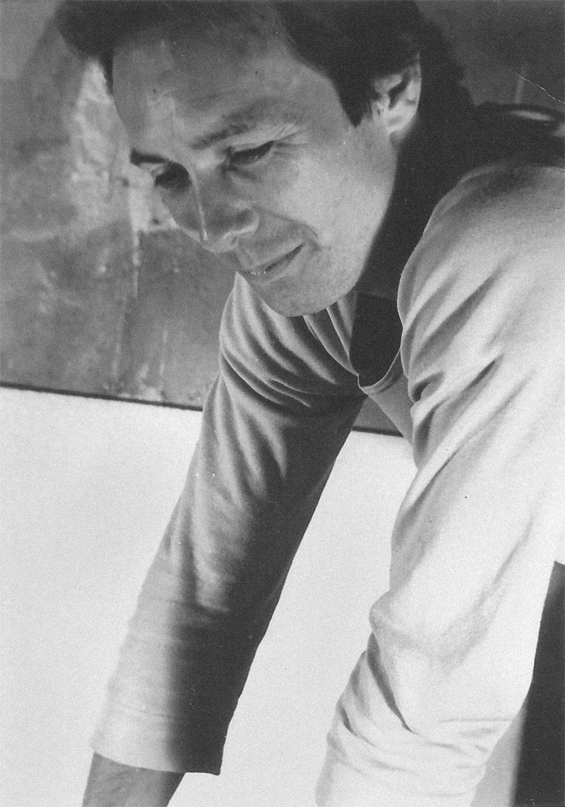 Painter Vítek Čapek